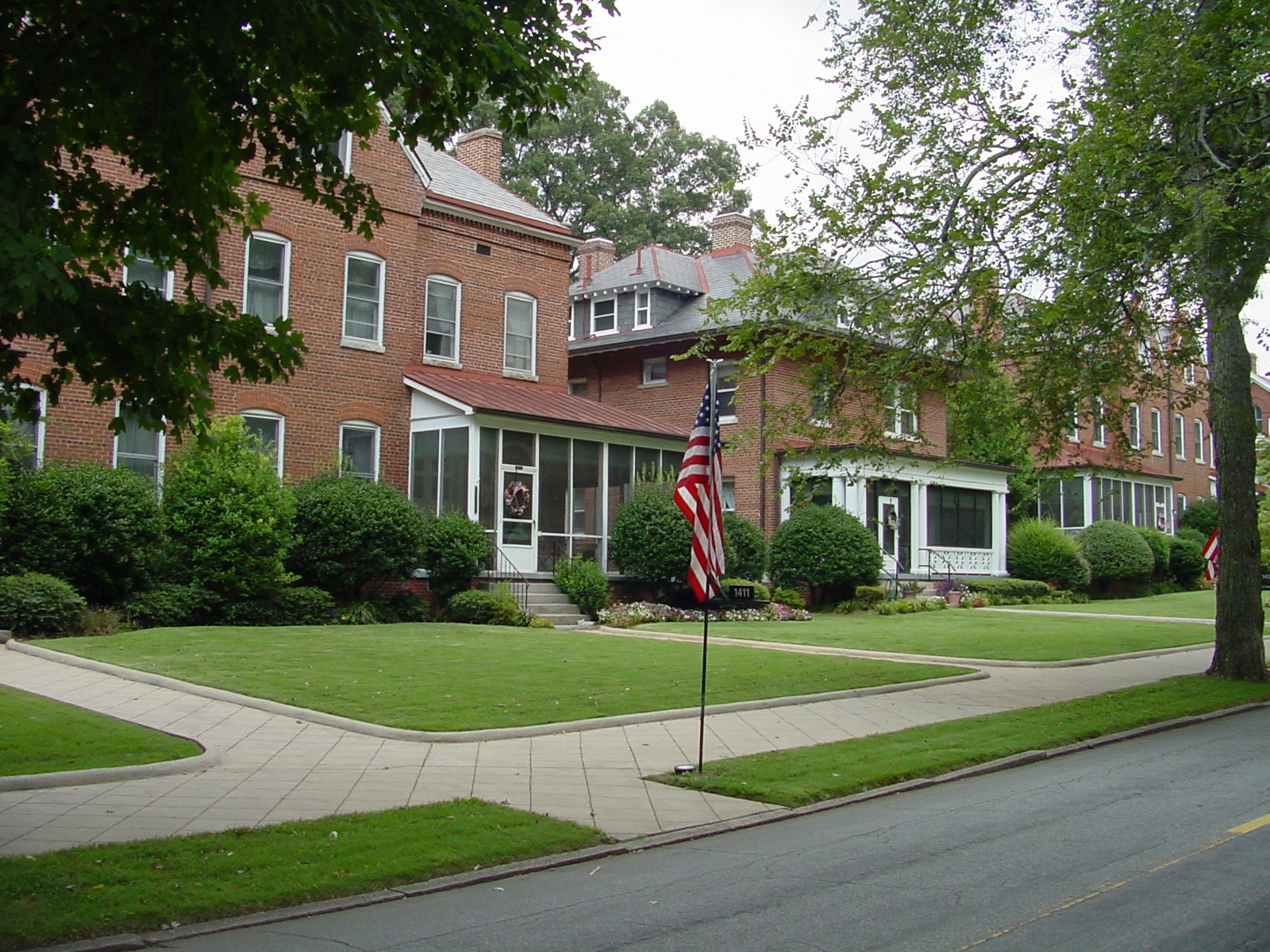 Staff Row, Fort McPherson, Ga.